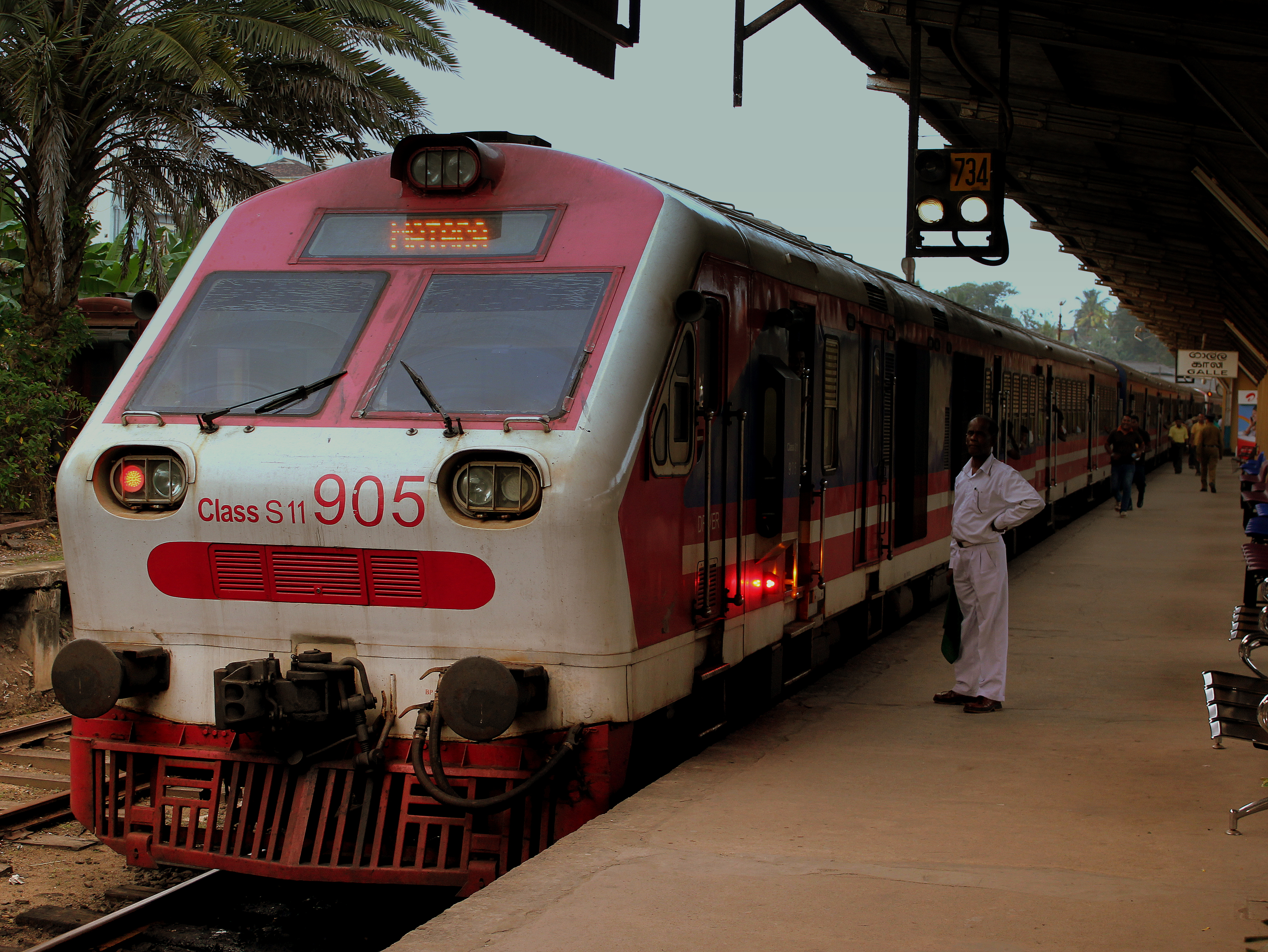 ABOUT TO DEPART TO MATARA,THIS TRAIN ORIGINATED AT COLOMBO FORT STATION